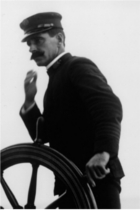 Charles Barr on Reliance, America's Cup 1903 Photograph : James Burton